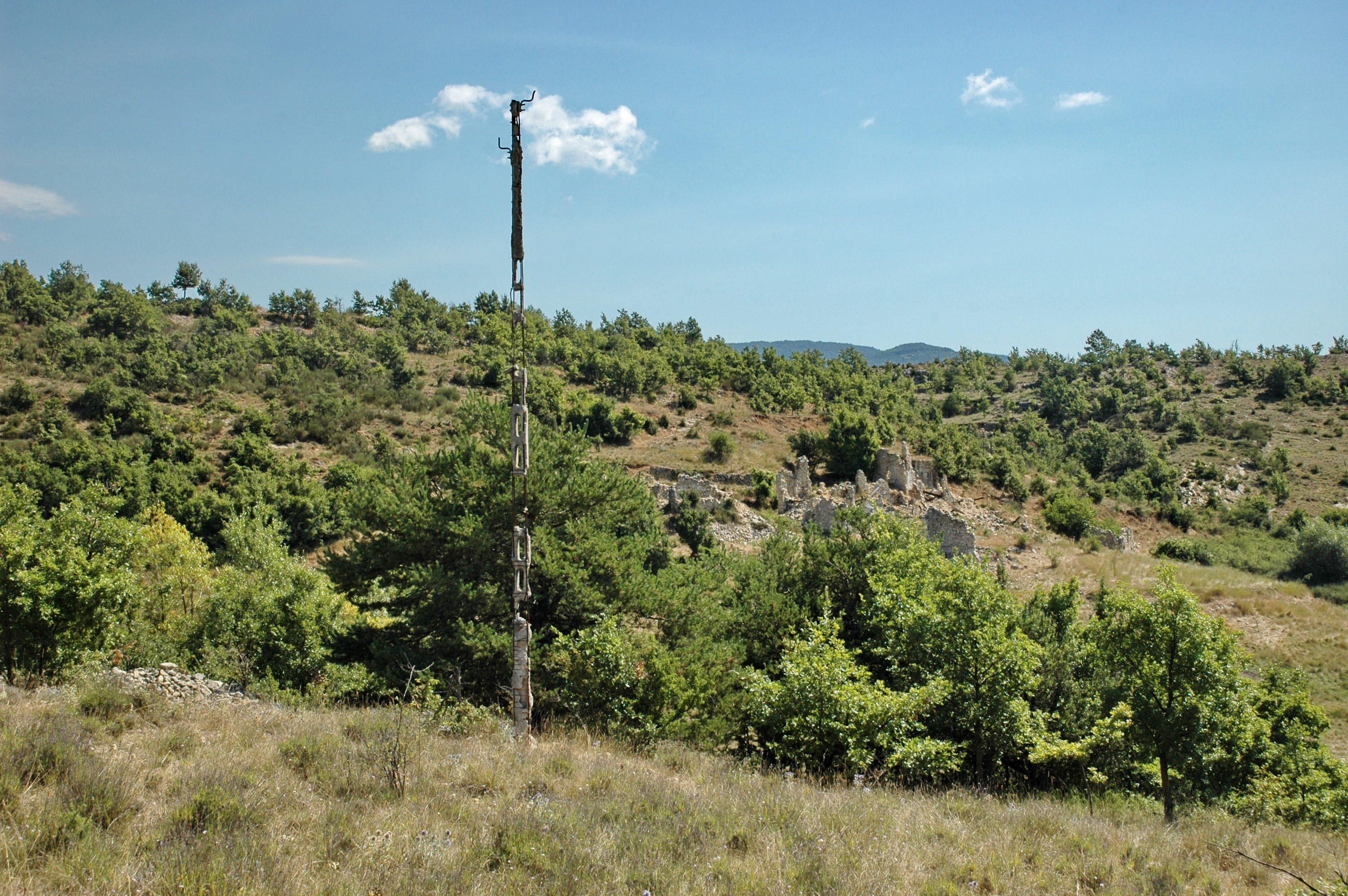 Canjuers military camp : Avellan farm (ruins)